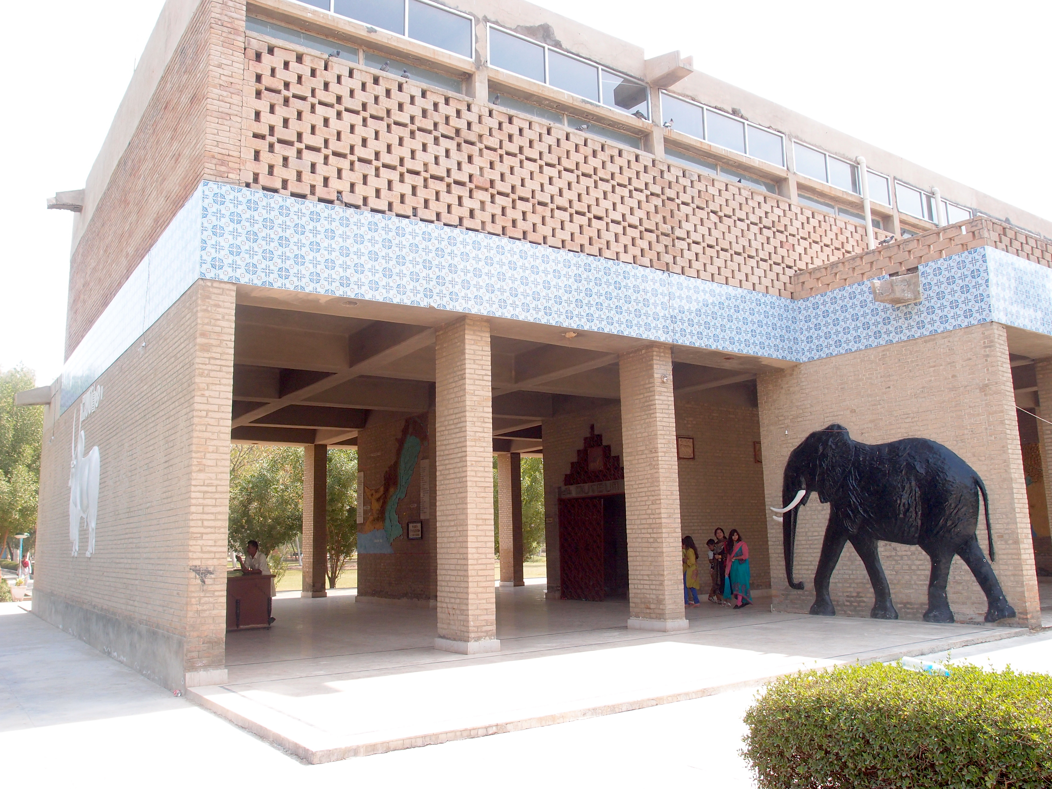 Mohenjo-daro museum building view